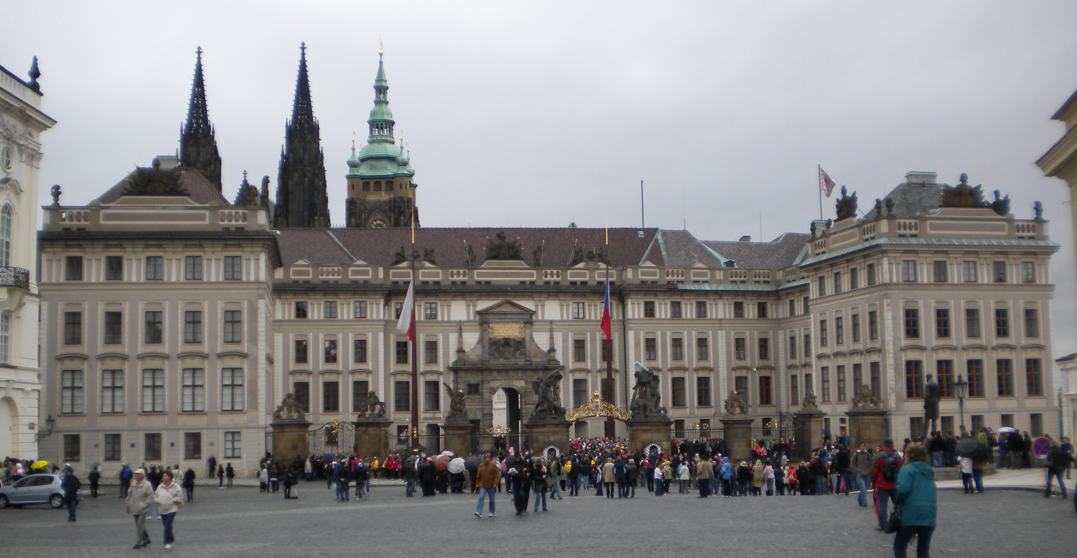 Prague scene